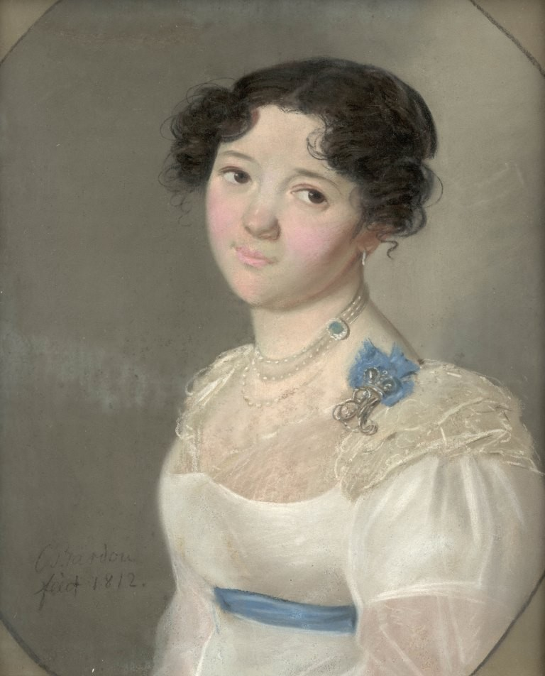 Portrait of Countess Agrafena Yuryevna Obolenskaya (1789-1829), Russian countess, born Neledinskaya-Meletskaya